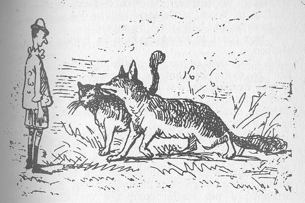 An illustration by Enrico Mazzanti of the Fox and the Cat (‘La Volpe e il Gatto’) from Carlo Collodi’s Le avventure di Pinocchio